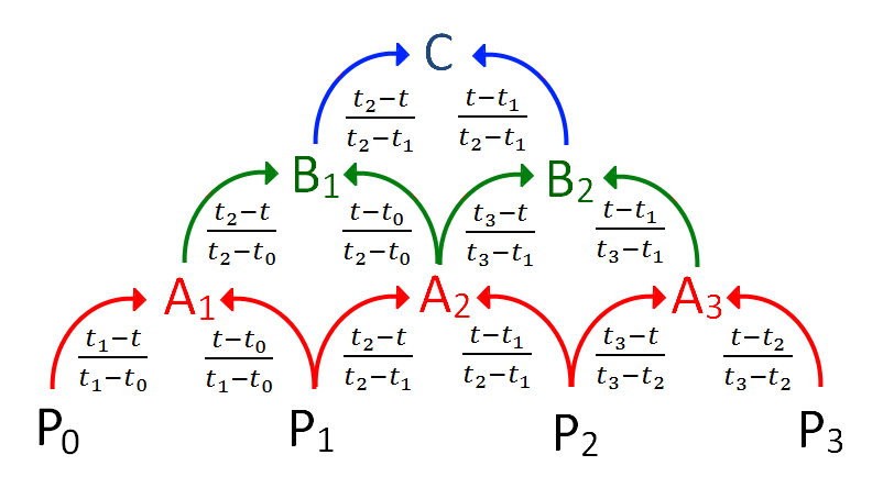 Cubic Catmull-Rom curve formulation with time parameter.